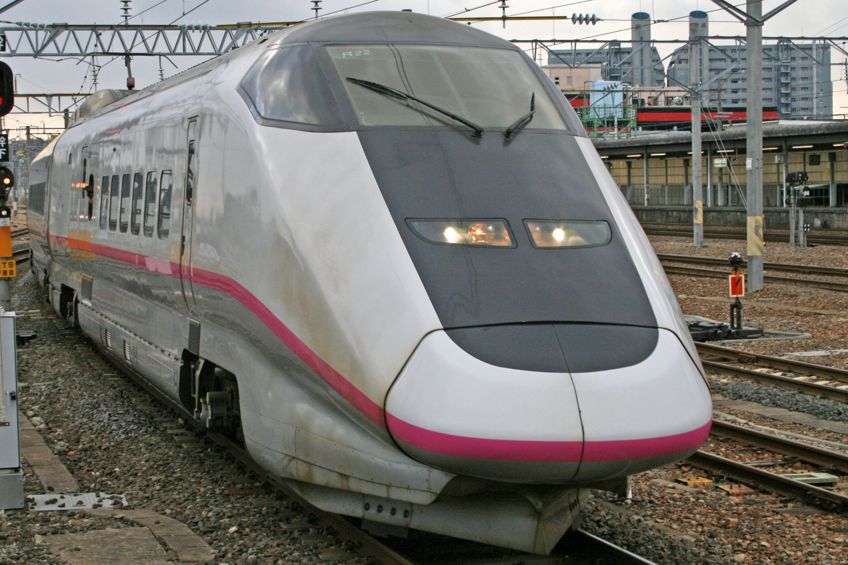 JR東日本E3系電車(こまち号として運用)、秋田駅にて撮影 JR East E3(Operated as Komachi), taken at Akita Station